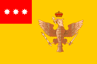 Civil ensign of the Principality of Wallachia, 1834-1861, later model